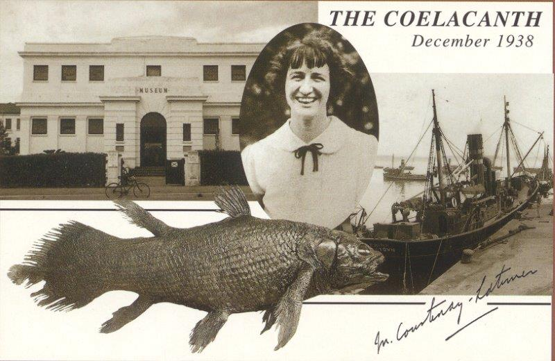 Postcard commomerating the discovery of the coelacanth by Marjorie Courtenay-Latimer in December 1938